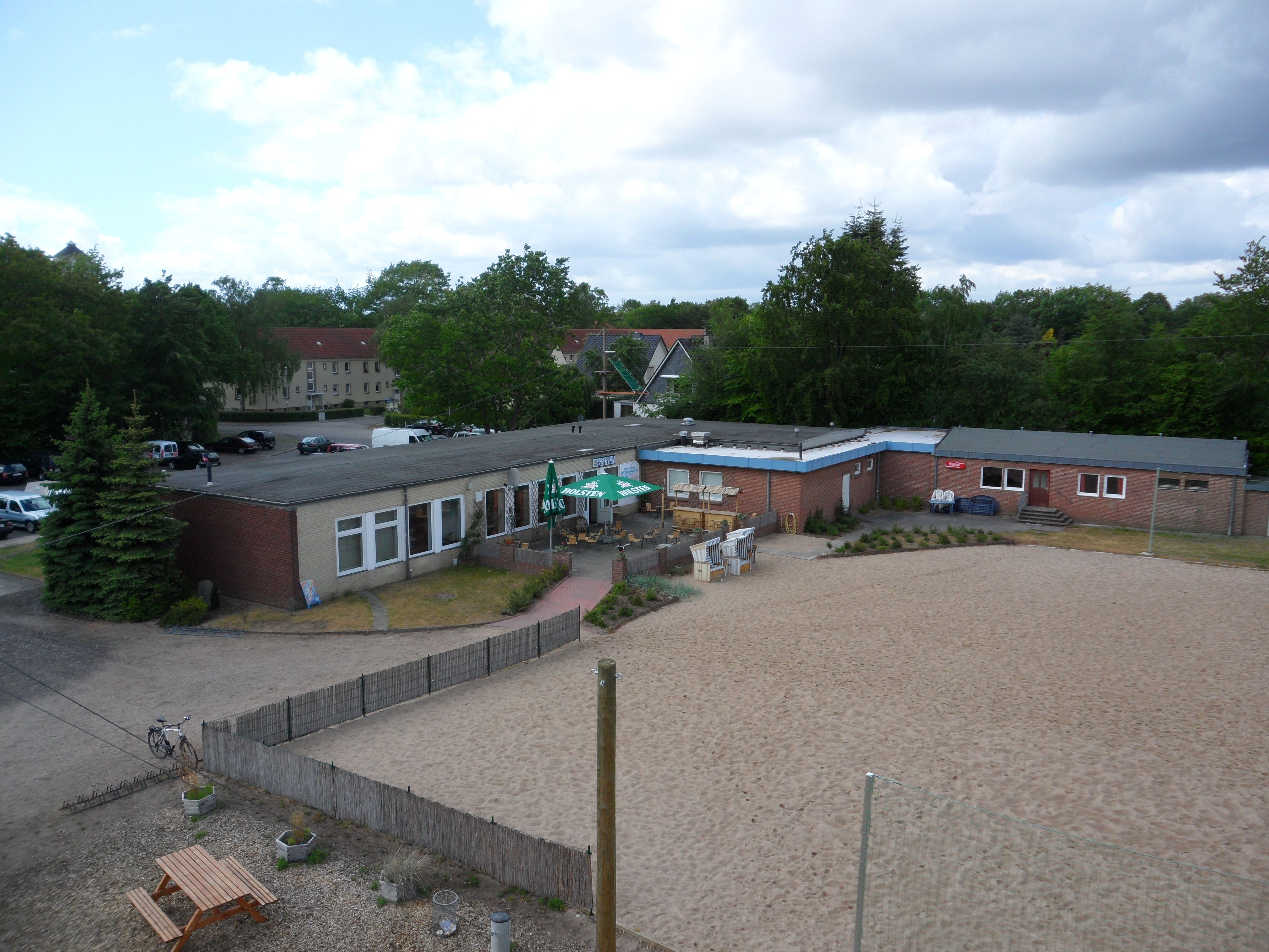 Club house of SC Gut Heil Neumünster von 1881 e.V located at Schillerstraße in Neumünster view from the crag